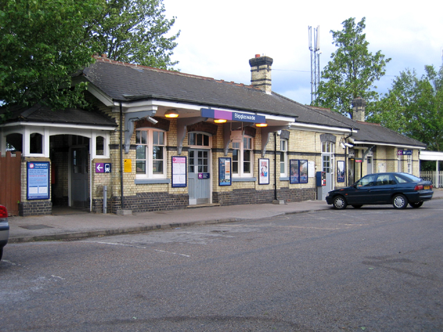 Biggleswade railway station, Beds. The Great Northern Railway opened in 1850, and Biggleswade was the first town in Bedfordshire to have a mainline station.